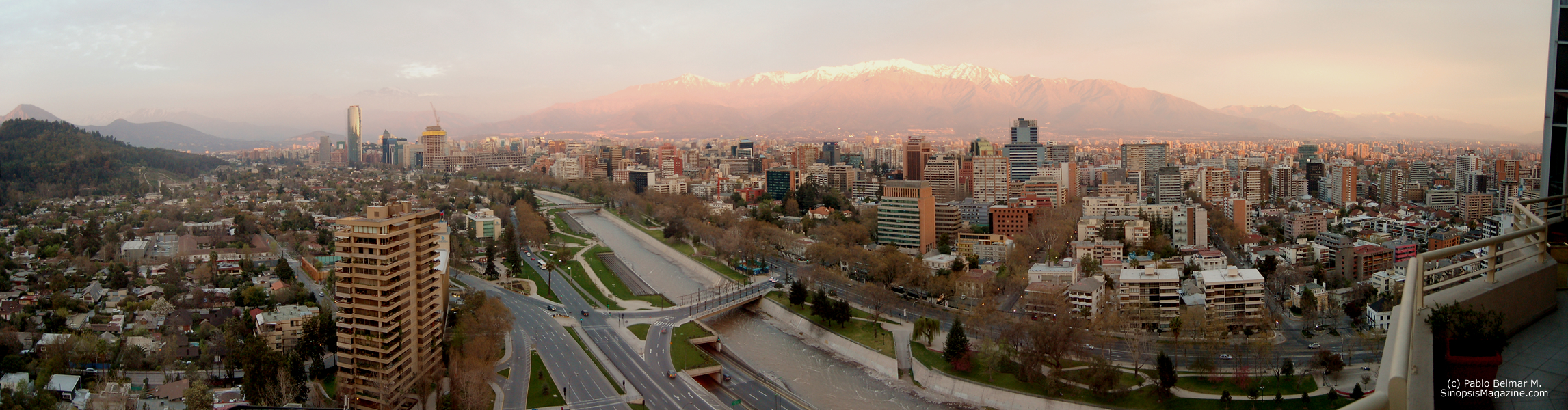 Panoramic image of the Sector East of Santiago. Photography captured from floor 21 of the Sheraton San Cristobal Tower.